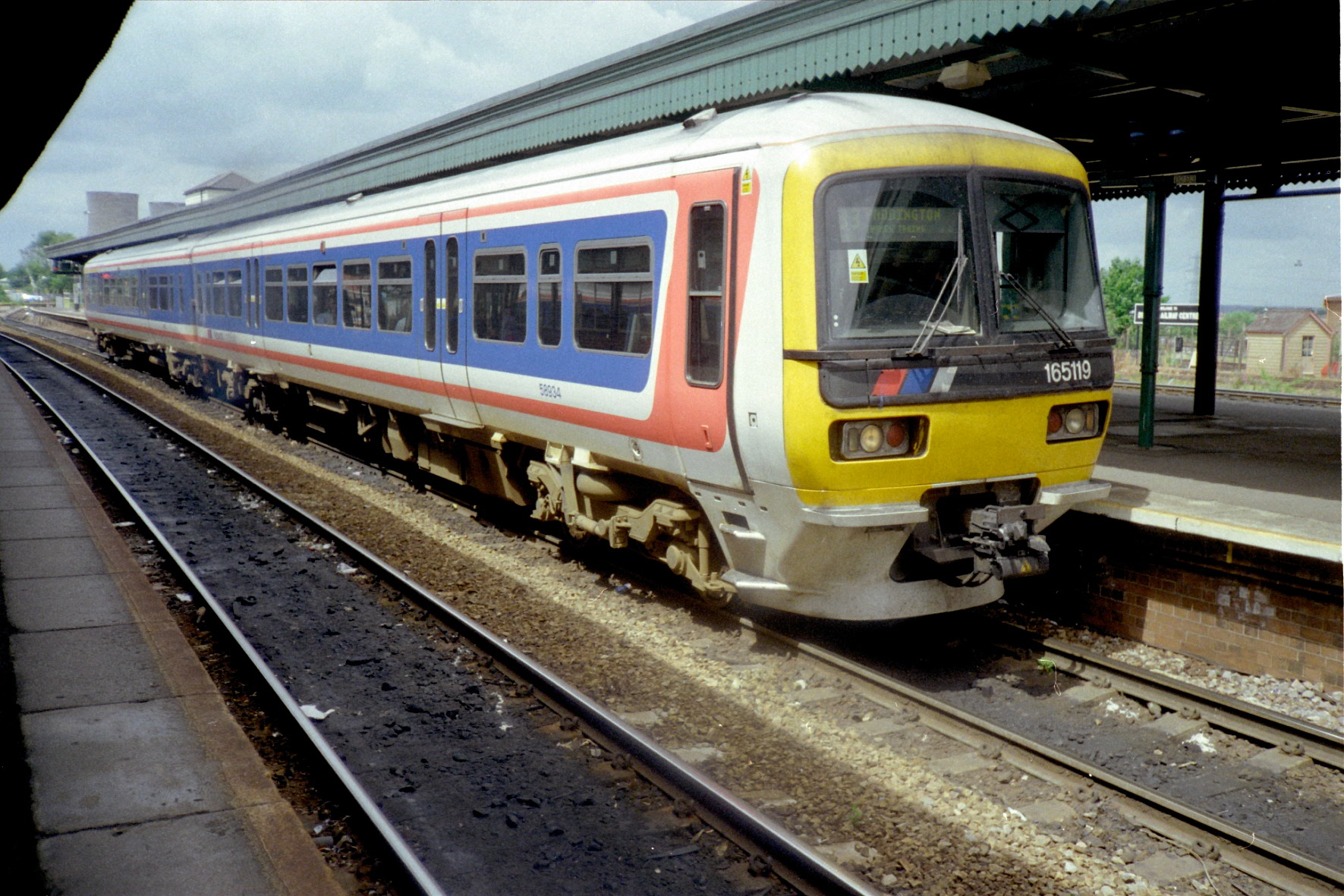 BR Class 165/1, no. 165119 at Didcot Parkway on 11th July 2002. This unit carries its original Network SouthEast livery.